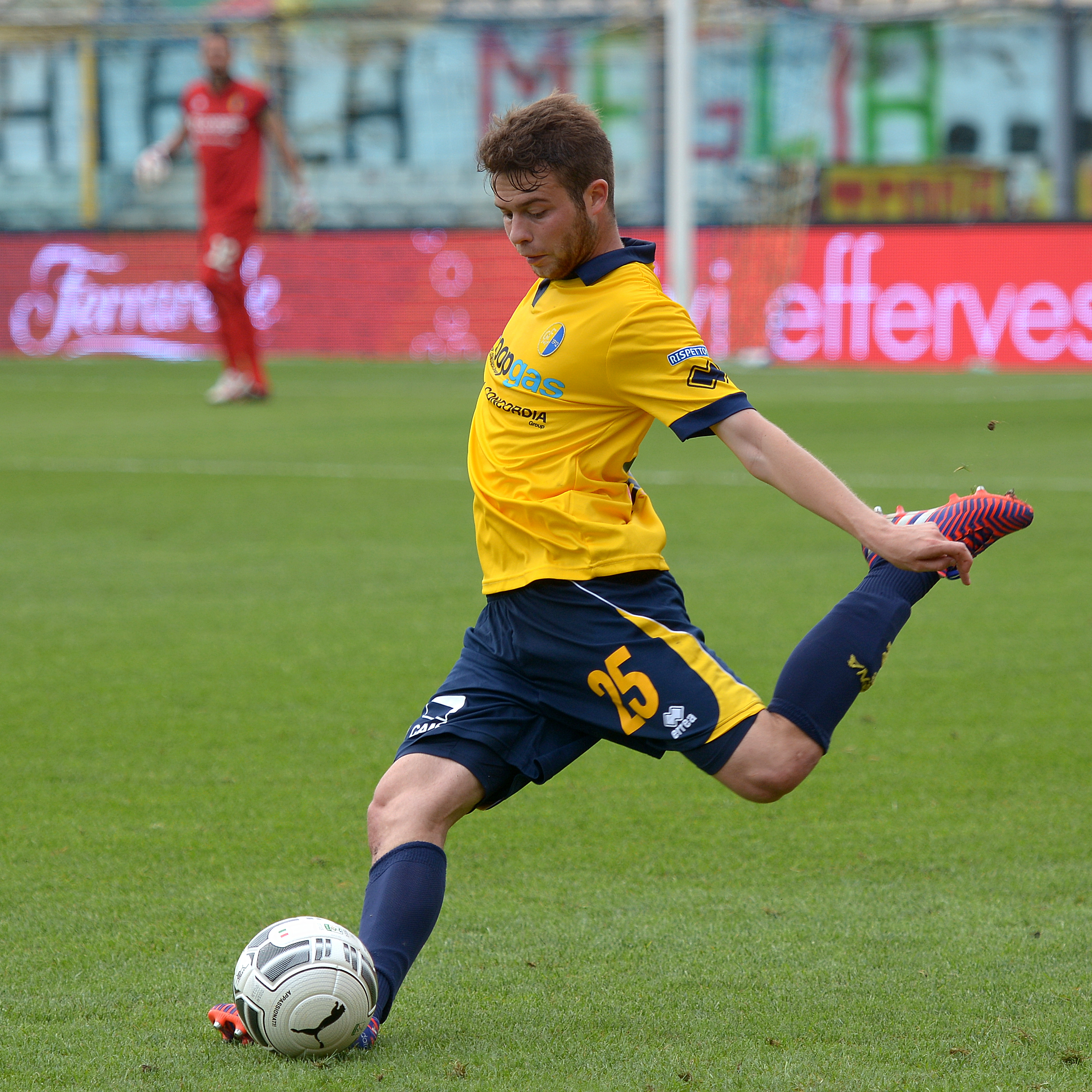 Alessandro Martinelli in action during the match Modena versus Ternana